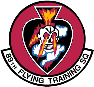 89th Flying Training Squadron Patch